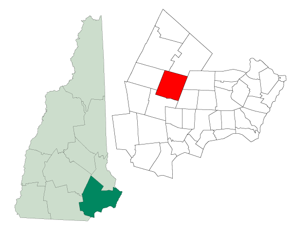 Map of a municipality in Rockingham County, New Hampshire